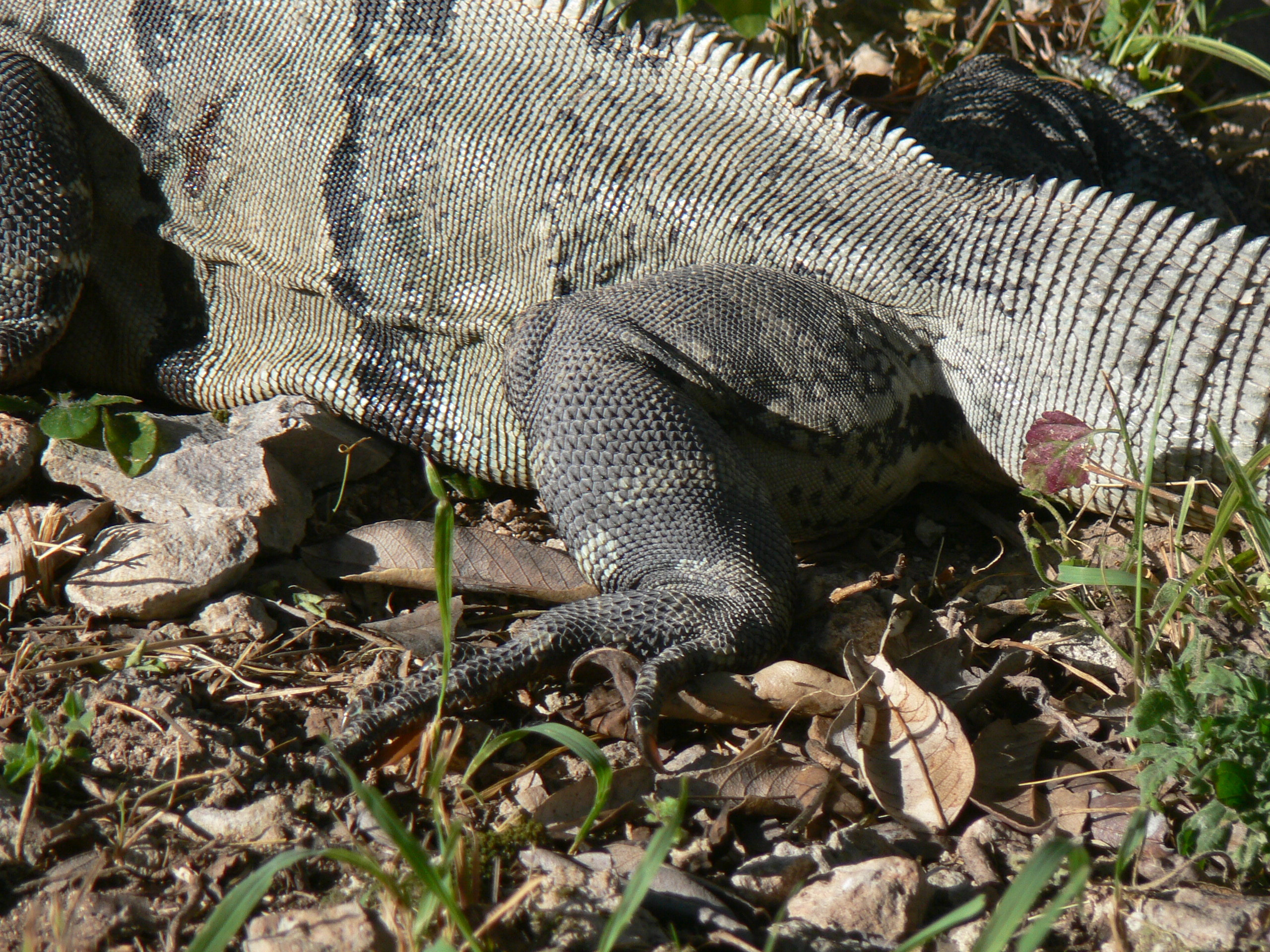 Uxmal ( Yucatan ). Iguana ( leg )